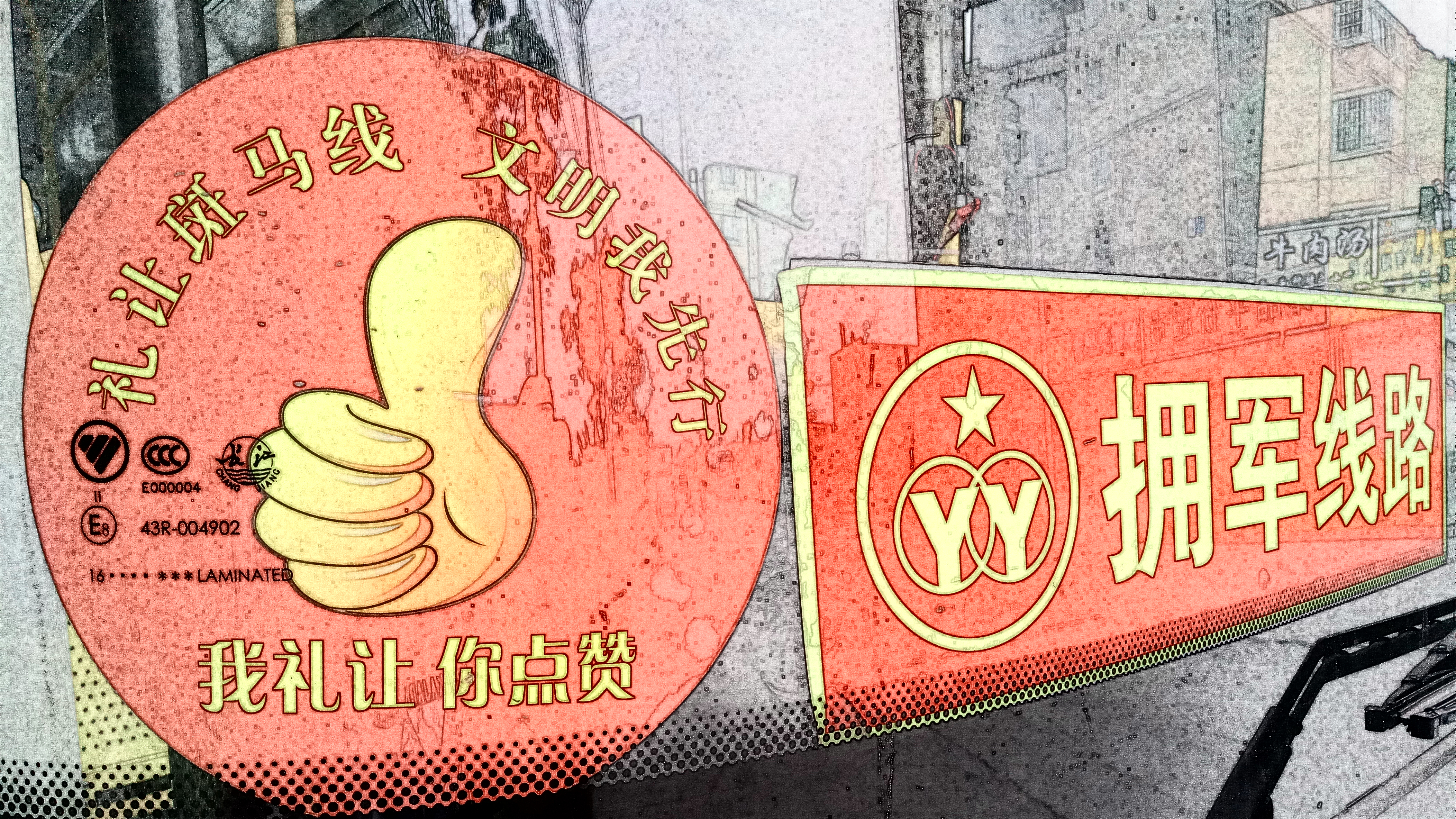 Bengbu Bus Armed Forces Supporter Line